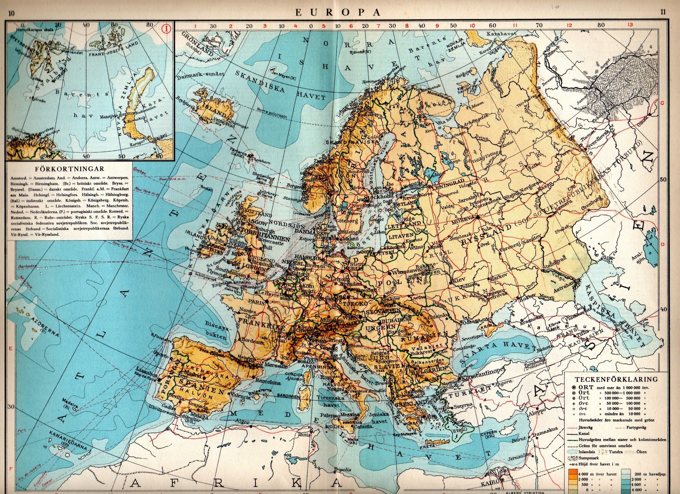 Map of Europe 1930 from the Swedish Atlas "Svensk Världsatlas".